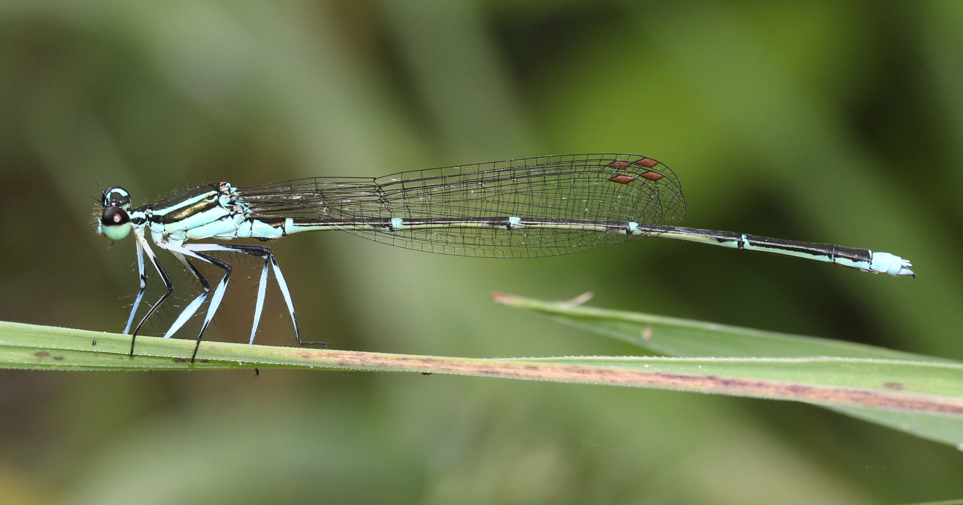 Copera annulata, male in Aichi prefecture, Japan.